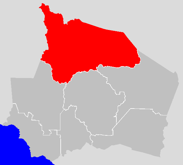 district map of Negeri Sembilan , Malaysia (using [1] as reference)